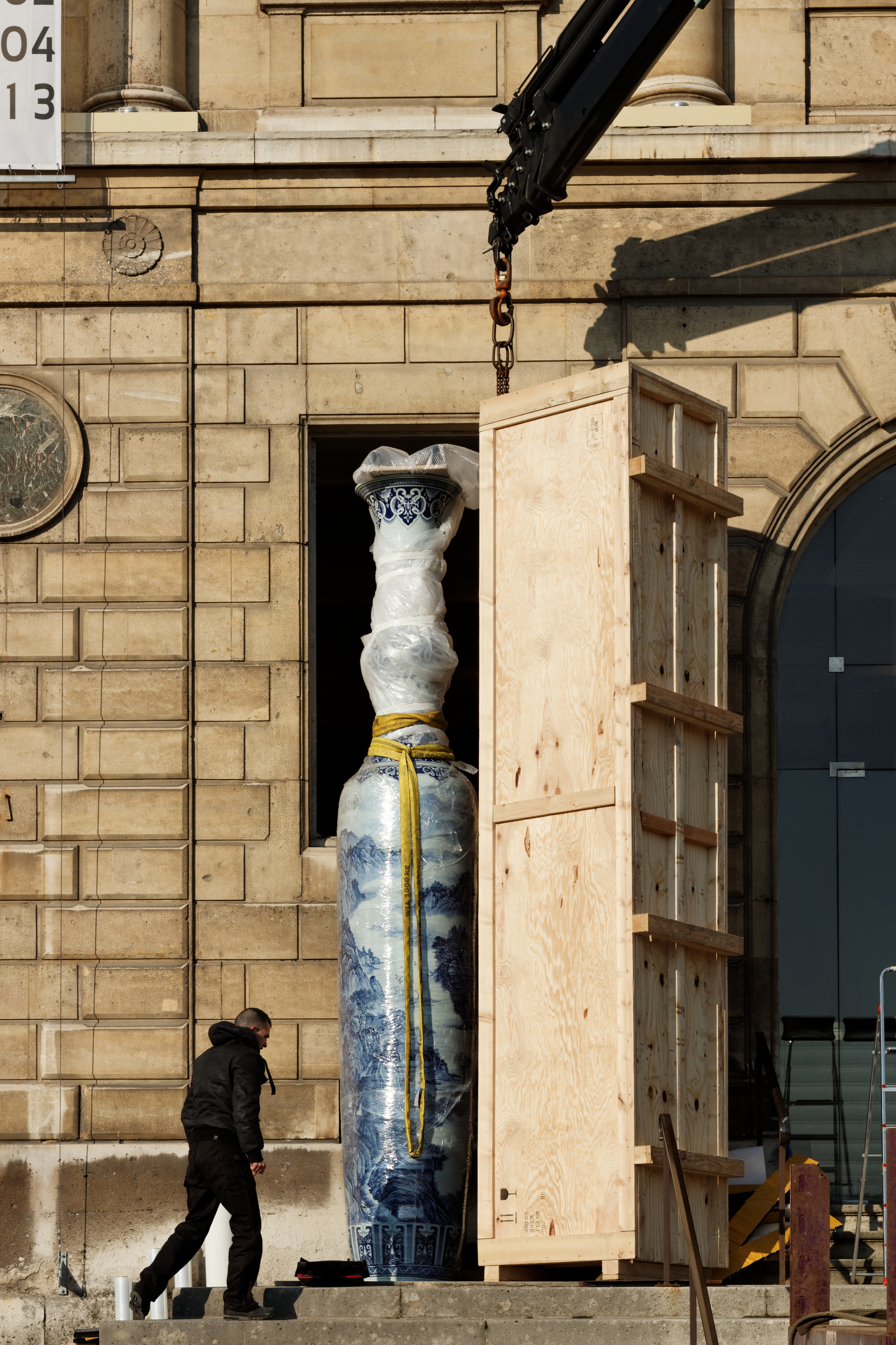 Removal of two Jingdezhen Ceramic vases from the entrance of the National Museum of Ceramics of Sèvres.